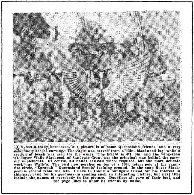 Newspaper clipping. Sandgate Rover Crew's Eagle campfire circle totem pole, at Victoria Point, near Brisbane, Queensland, Australia. On the grounds of Eprapah. May 1937. Copyright has expired in Australia ( The World's News (Sydney, NSW : 1901 - 1955), 26 May 1937, p. 33.